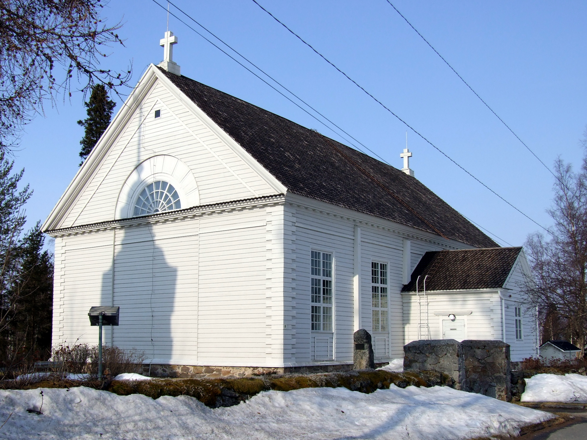 Simo church. Built in 1846. Designed by architect Ernst Bernhard Lohrmann